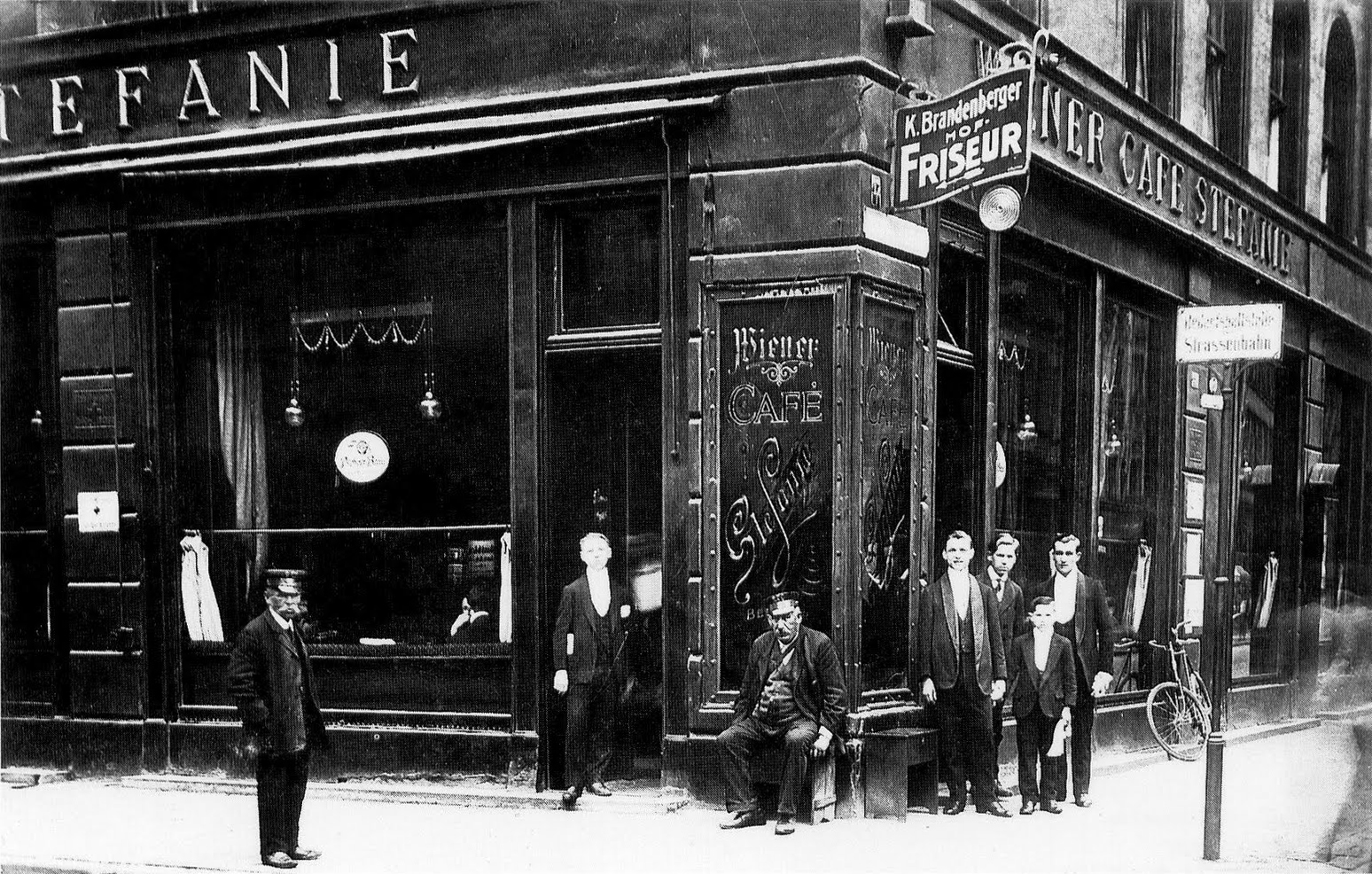 Cafe Stefanie 1905